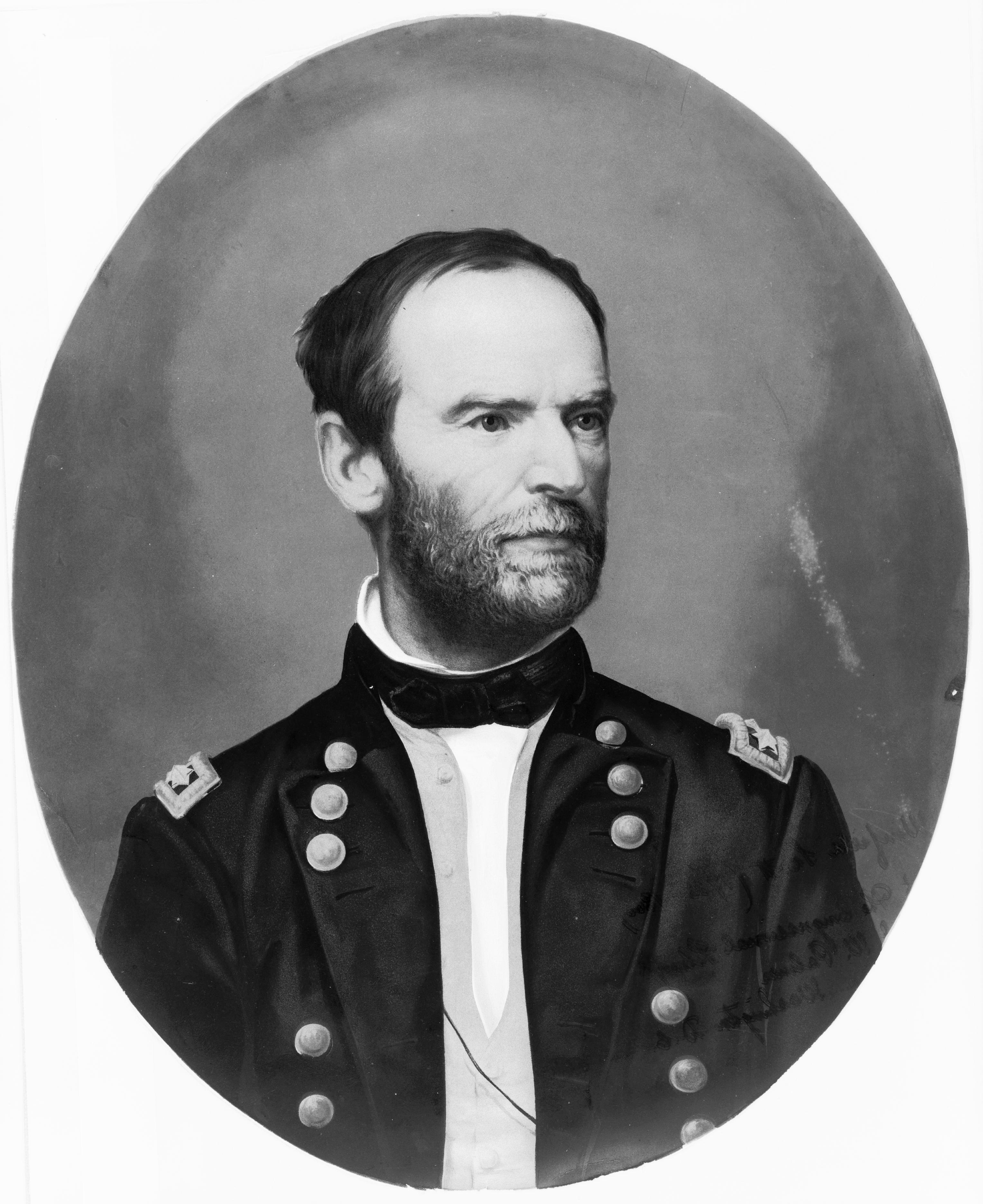 William Tecumseh Sherman, ca. 1865